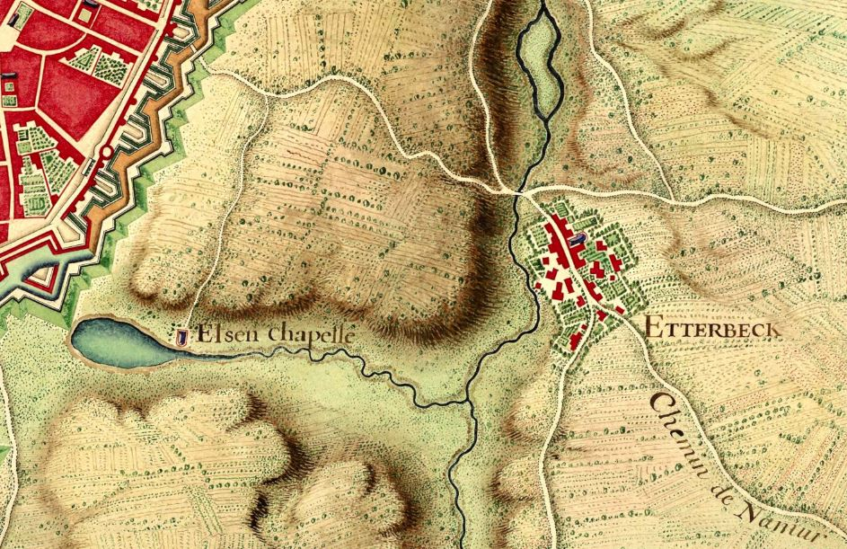 Etterbeek in the map of Brussels from Louis XIV, 1700